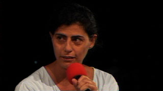 Lebanese former prisoner Soha Bechara in Geneva, Switzerland, 2006